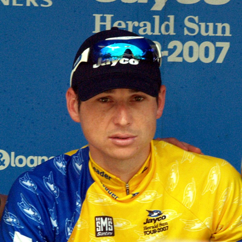 Australian cyclist Matt Wilson on the podium following Stage 7 of the 2007 Herald Sun Tour, Melbourne, Australia.